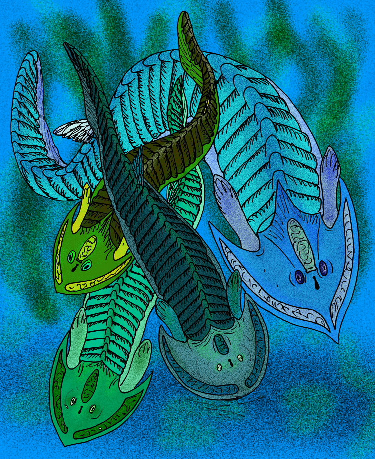 Reconstructions of various species of the jawless fish genus Cephalaspis From the right, clockwise: C. magnificans, C. poweriei, C. lyelli, C. whitei.